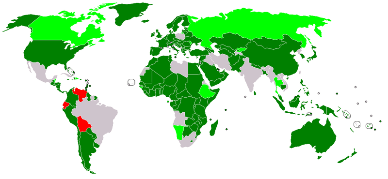 countries map for International Centre for Settlement of Investment Disputes